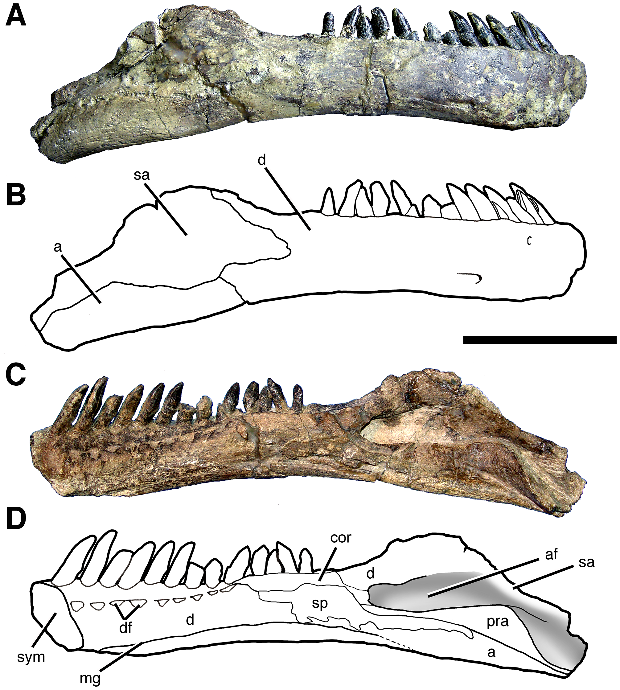 Right mandibular ramus of Sarmientosaurus musacchioi gen. et sp. nov. (MDT-PV 2). Photographs (A, C) and interpretive drawings (B, D) in lateral (A, B) and medial (C, D) views. Abbreviations see text. Scale bar = 10 cm.